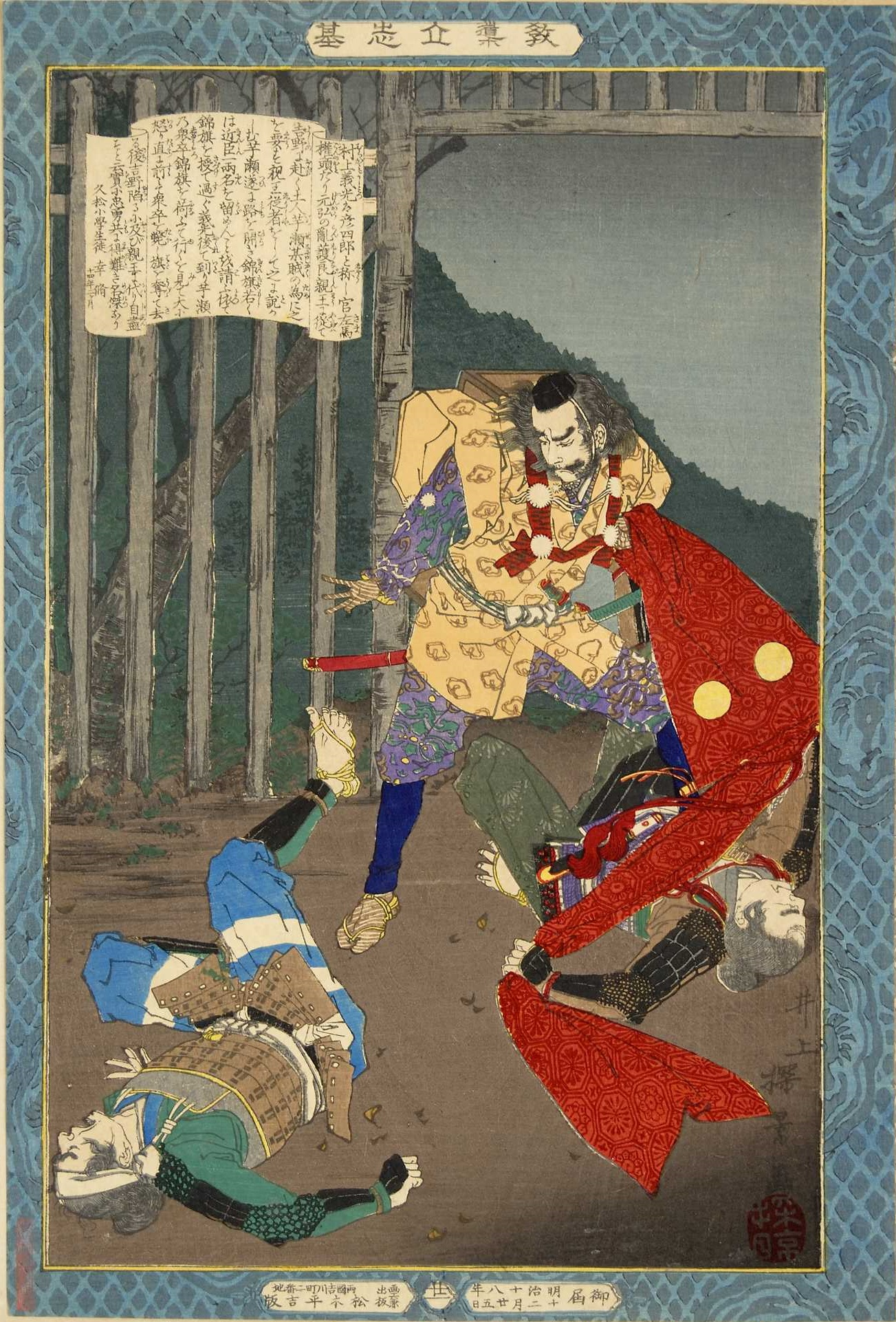 Murakami Yoshiteru, from the series Instruction in the Fundamentals of Success, Woodblock print